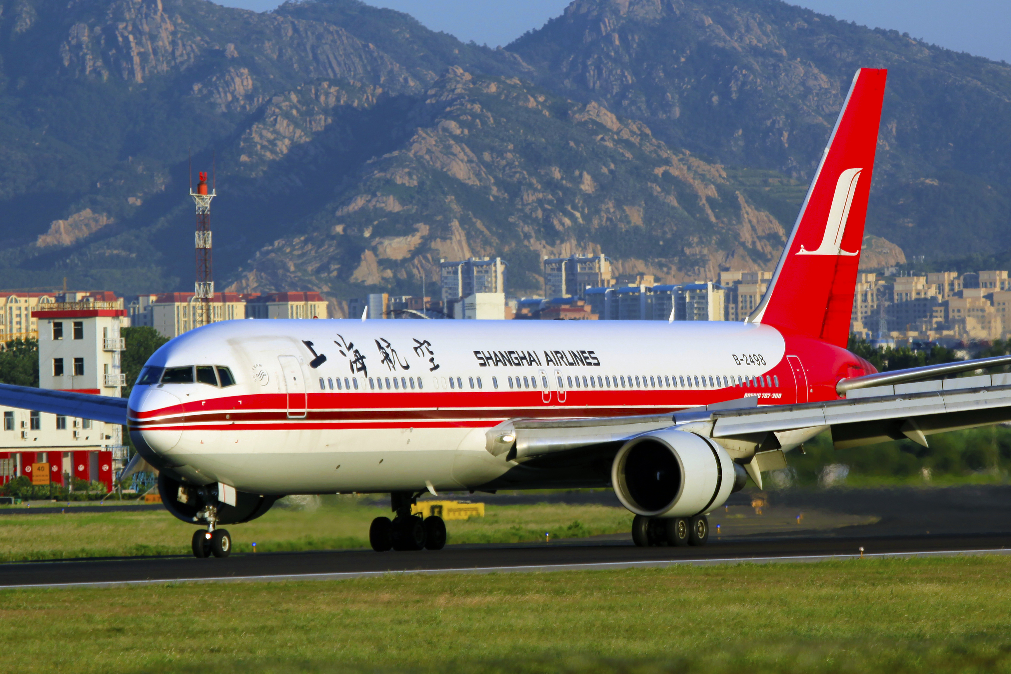 B-2498 | Shanghai Airlines | Boeing 767-36D | Qingdao Liuting International Airport [TAO]